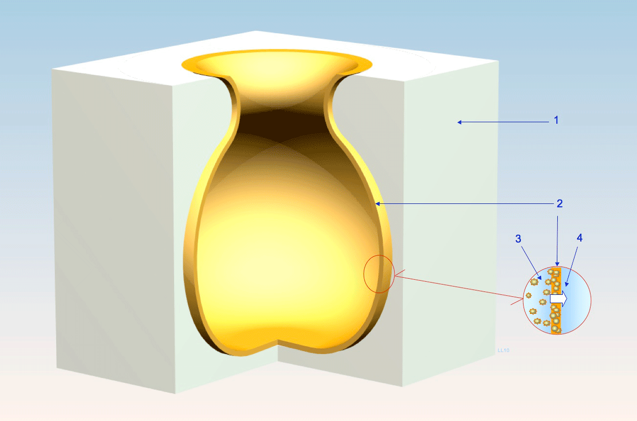 Slip casting principle. 1 Mold. 2 Solid slip. 3 Liquid slip. 4 Slip dehydrating (capillary action by the mould).